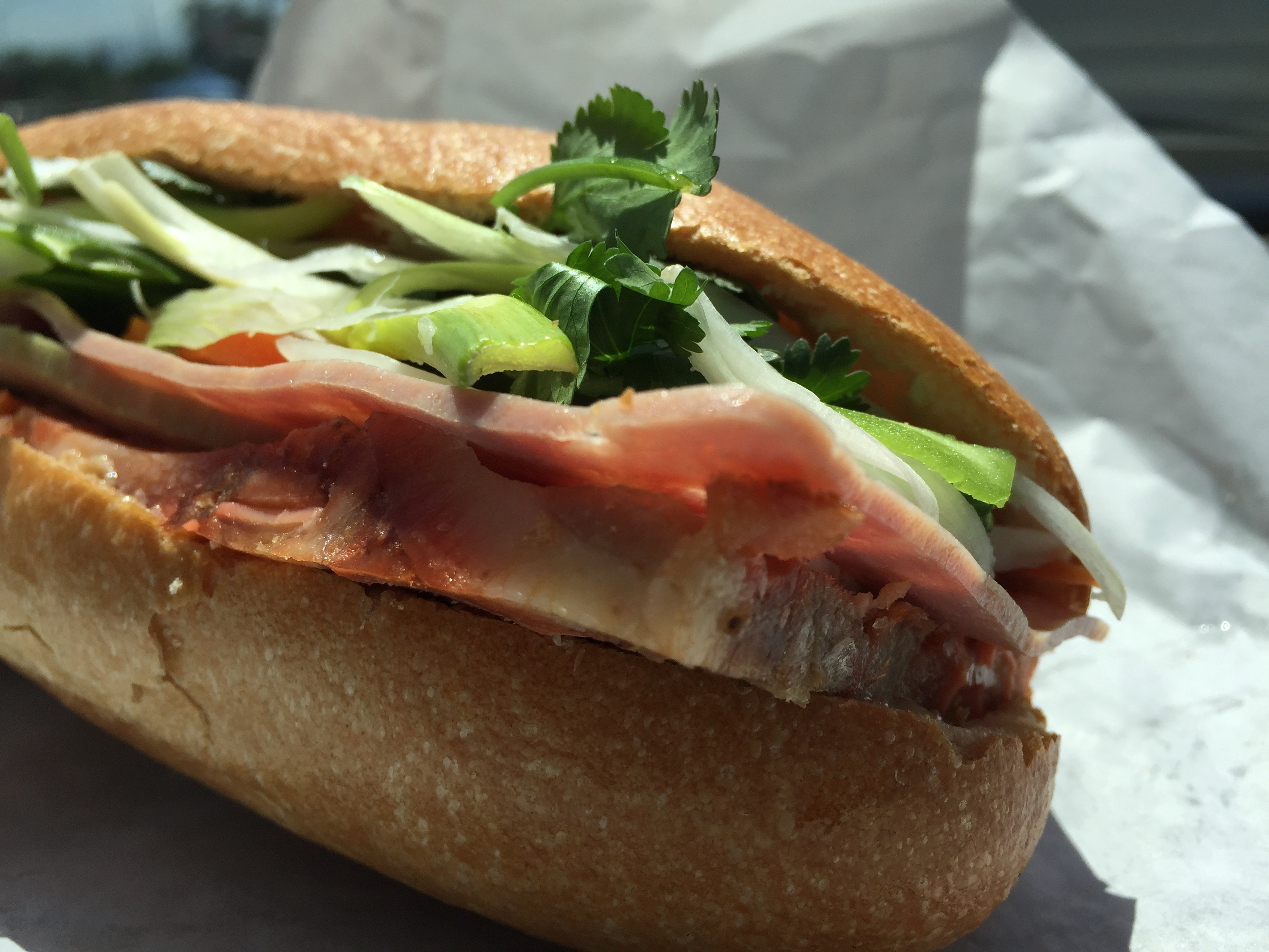 A bánh mì thịt nguội from Thiên Hương Sandwiches in San José, California, United States.